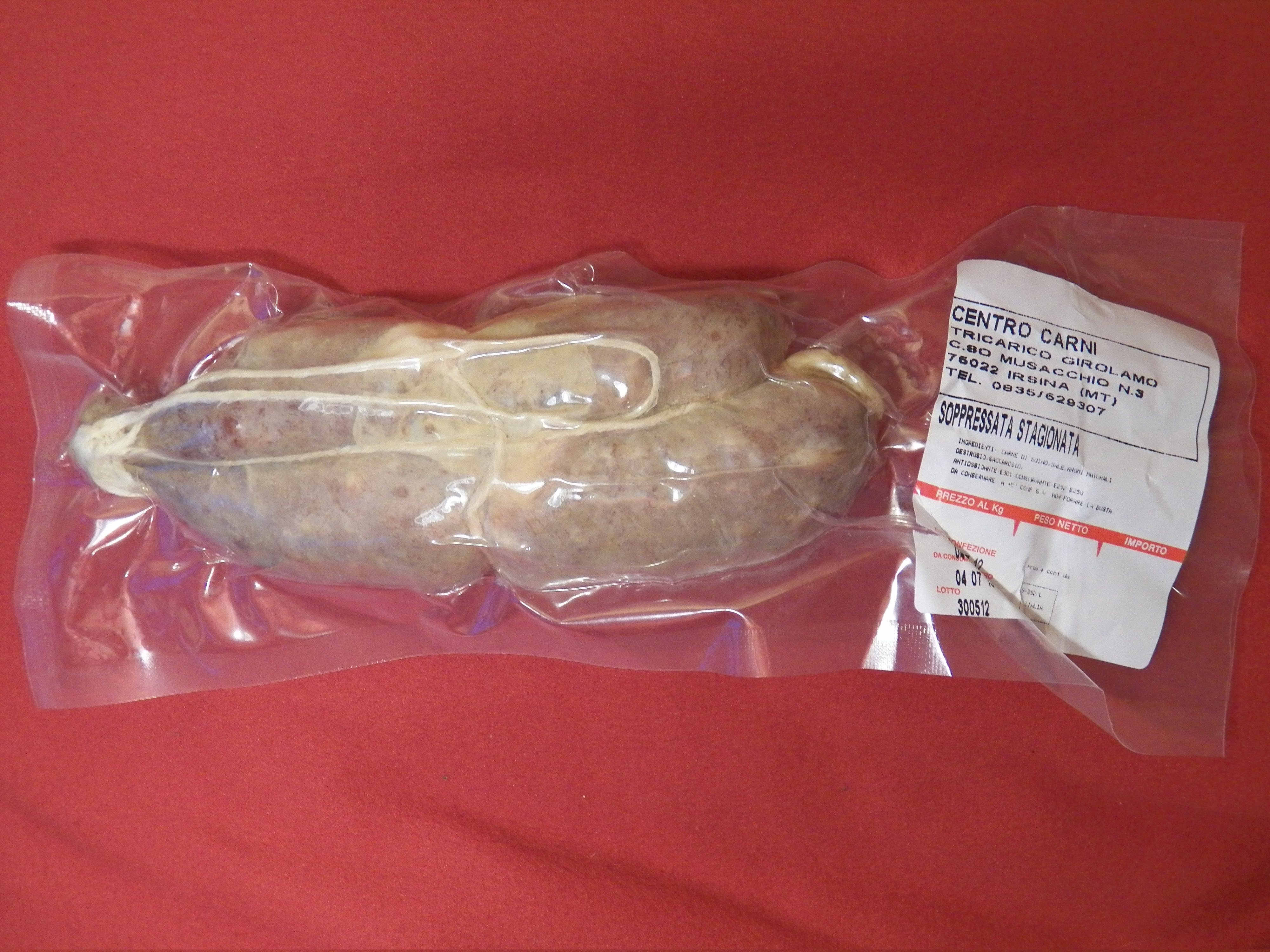 Vacuum-packed soppressata from Basilicata